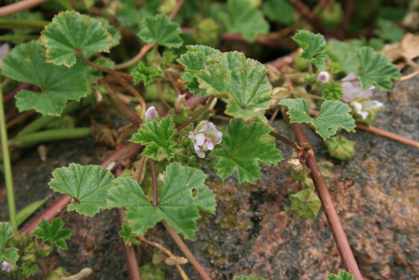 Malva neglecta: Foliage